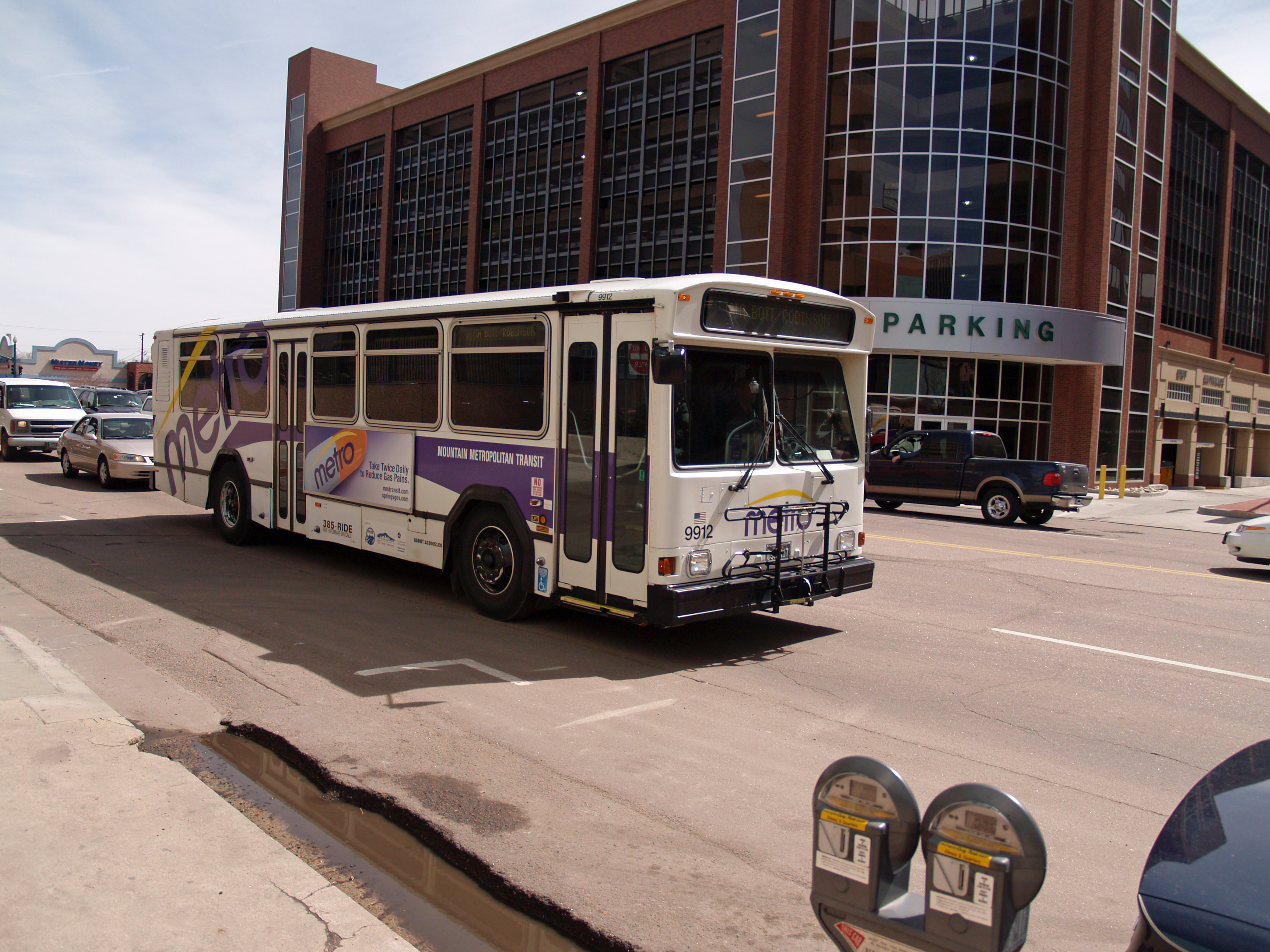 Colorado Springs, Colorado transportation - Metro bus, parking meter and parking garage.